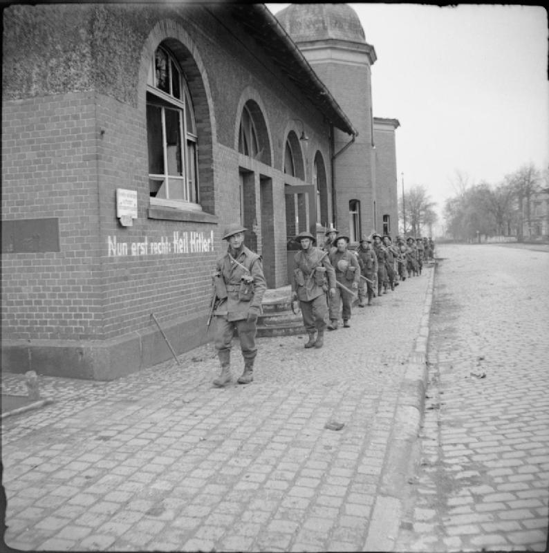 The British Army in North-west Europe 1944-45 Men of the 2nd Monmouthshire Regiment, 53rd (Welsh) Division in Bocholt, 29 March 1945. Note the Nazi slogan painted on the wall.